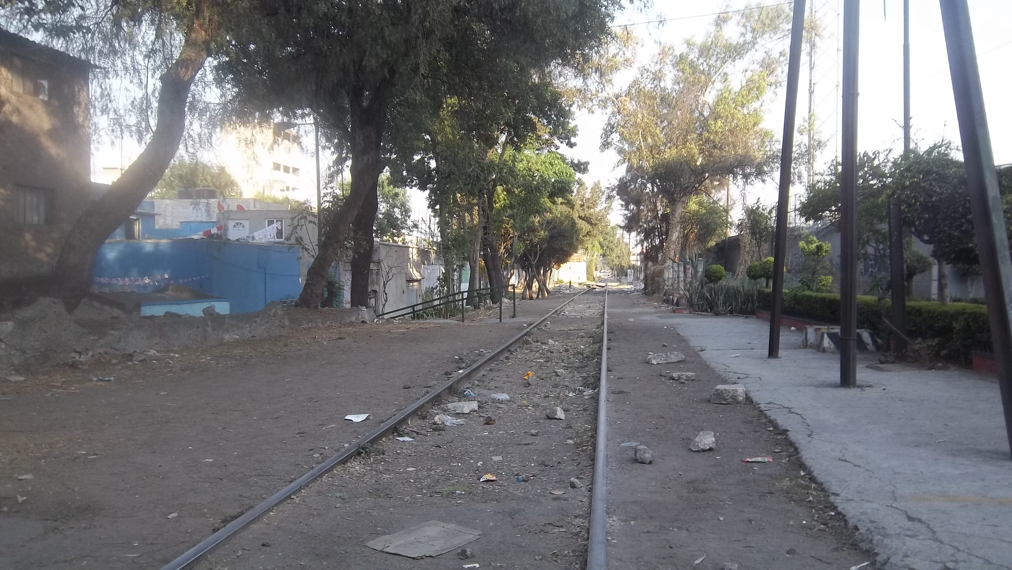 Old railway Mexico-Cuernavaca, Crisantema street, Colonia Atlampa, Mexico City.